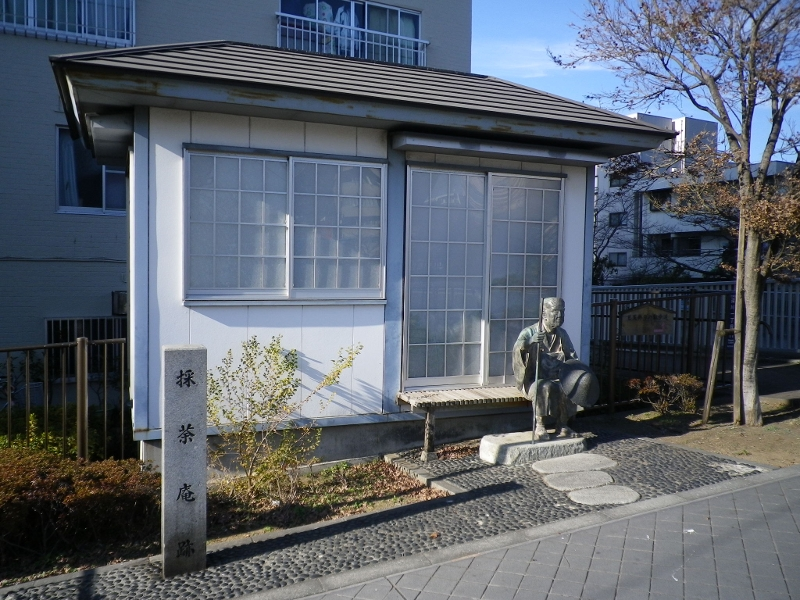 Site of Saito-an (Matsuo Bashō's hermitage) in Koto, Tokyo